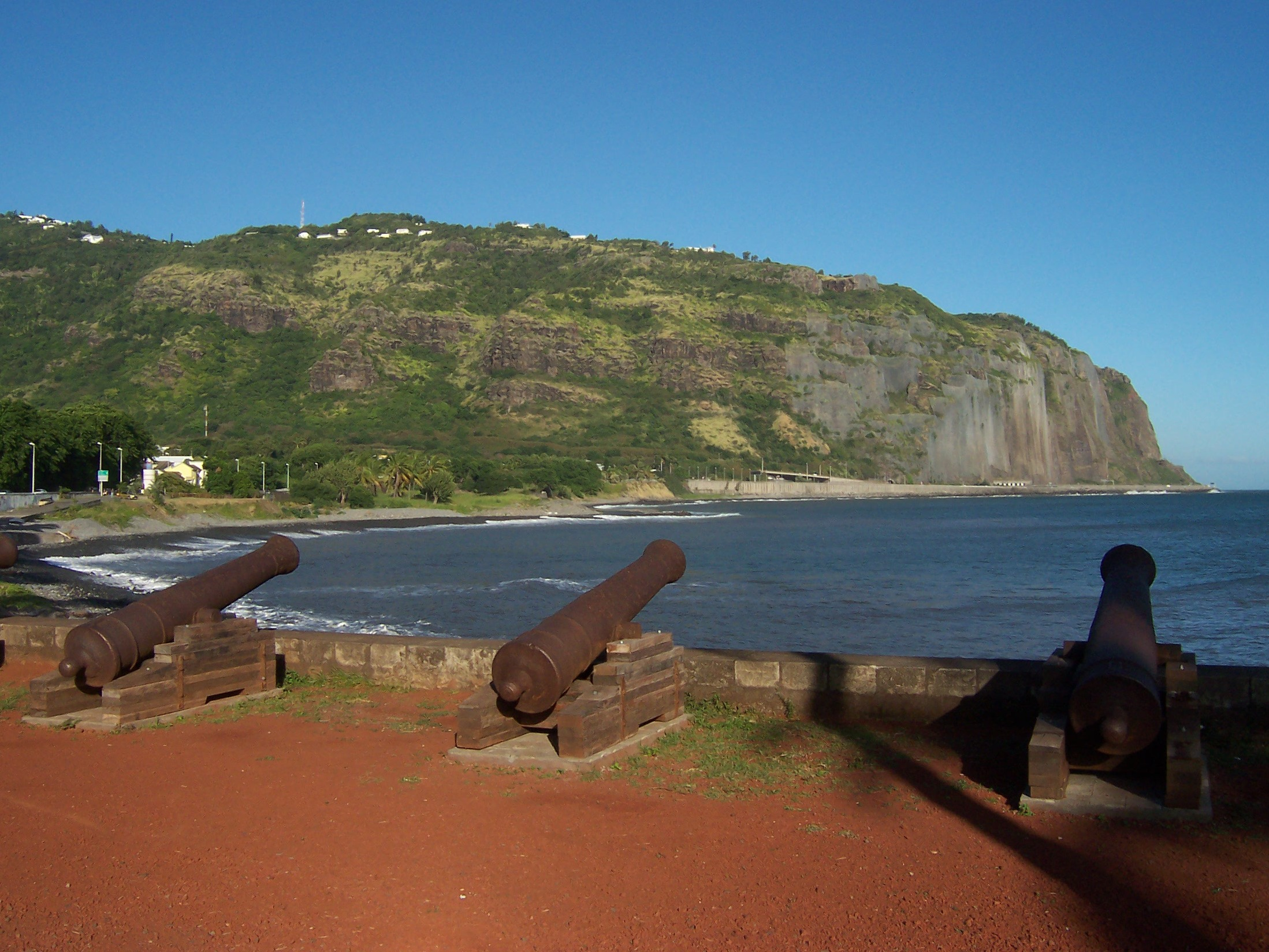 Saint-Denis (Réunion) : the old canons on the seaside mail called Le Barachois and in the backview, the cliff of la route du littoral with its huge iron protective nets.